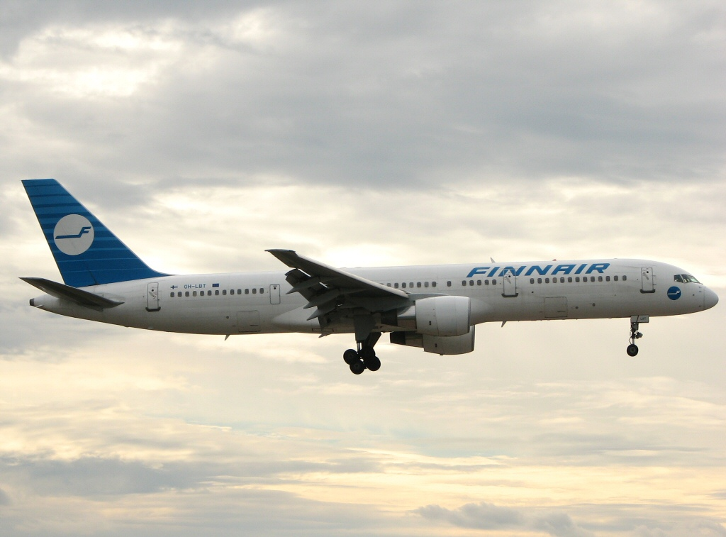 Finnair Boeing 757-200 landing to Helsinki-Vantaa airport